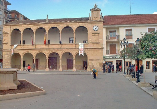 Fachada principal del Ayuntamiento de Villarrobledo, de estilo Renacentista. Edificado en 1599.